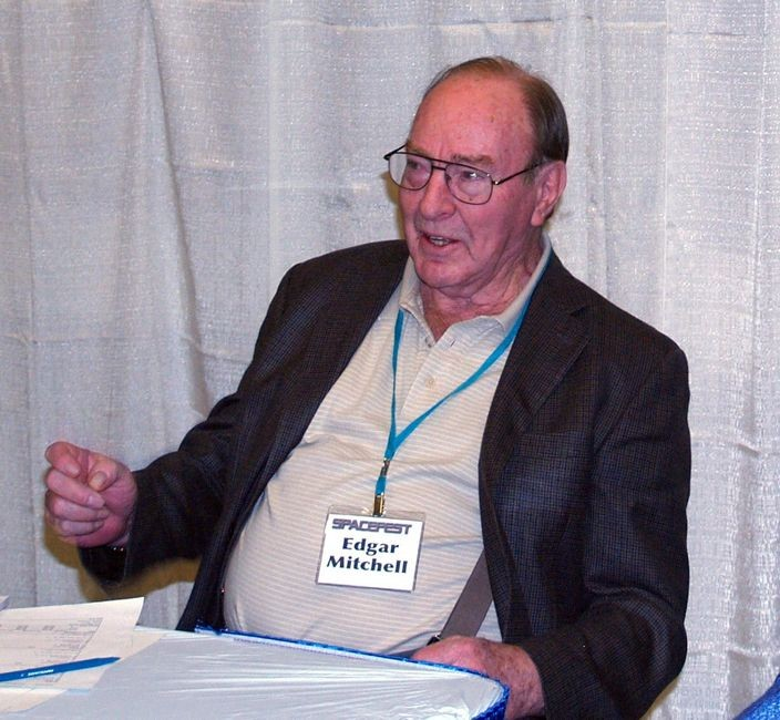 I personally took this photo of NASA astronaut Edgar Mitchell in San Diego. You can see all of my astronaut photos at